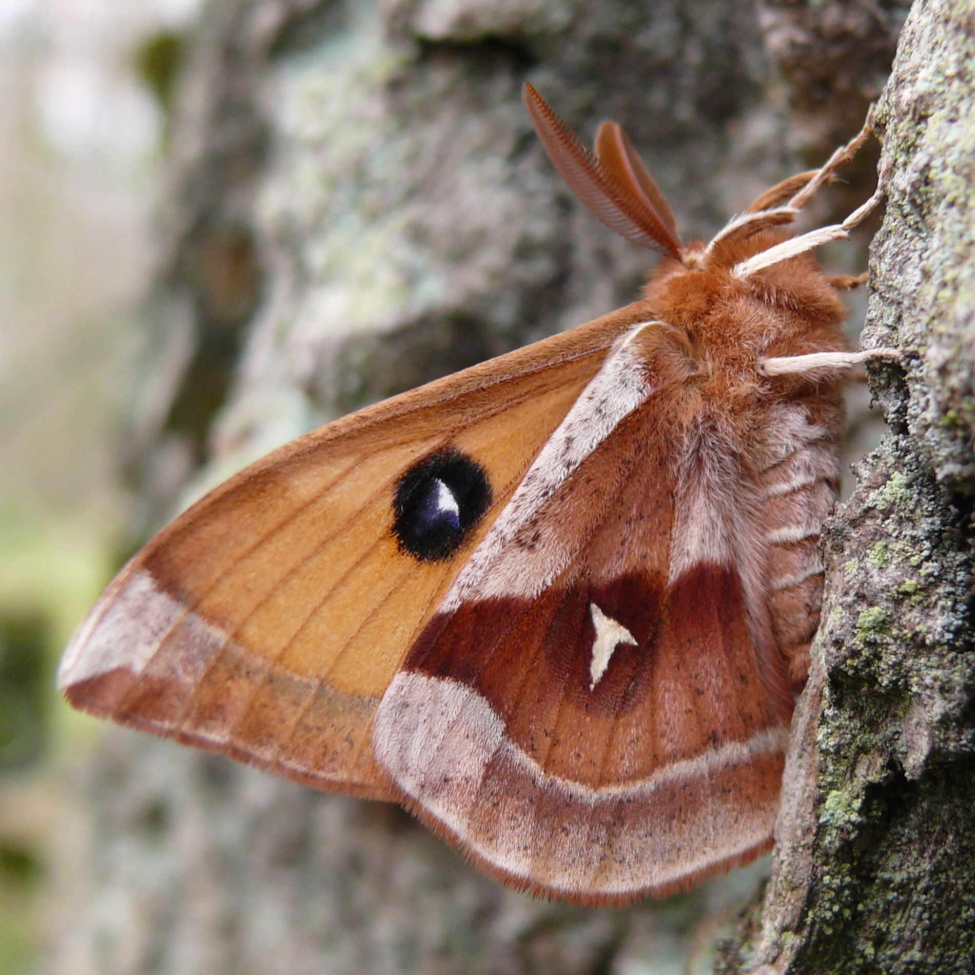 Male Tau Emperor (Aglia tau)